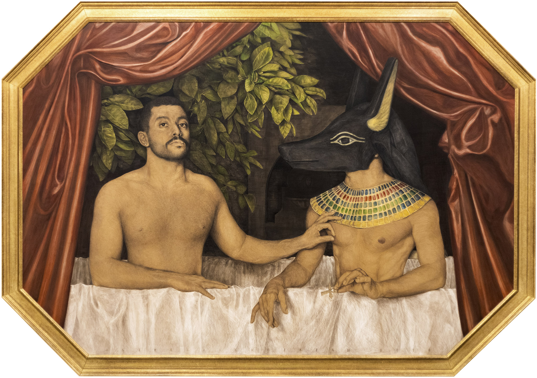 As a witness to the pregnancy of Gabrielle d’Estrées, a painting was commissioned and completed in the year of 1594. From an unknown artist, this painting shows Gabrielle d’Estrées in a bathtub with her sister pinching her nipple, in a sign of the upcoming motherhood while Gabrielle holds the ring of Henry of France, father of her soon to be child. This painting bears the same composition of a painting from 1571, “ Diane de Poitiers” by Francois Clouet. Alireza Shojaian used the same composition as “Gabrielle d’Estrées et une des ses sœurs” to portray, in his very own way, a particular moment in our recent history when, during a concert by Mashrou’ Leila, in Cairo on 22 September 2017, many concert goers were arrested by the police for waving the rainbow flag in support for the LGBTQ community during the performance. This governmental intolerance to this particular community is recursive in most Middle Eastern countries. He has captured this not-to-be documented event by dedicating this collaborative artwork to Hamed Sinno, the lead singer of Mashrou’ Leila and portraying him pinching the nipple of Anubis, the ancient Egyptian god, who holds Ankh, the symbol of immortality. The tree symbolizes the growth of this tolerance movement. In the background, the water fountain symbolizes water; the element that can take any form or shape yet can penetrate rock.